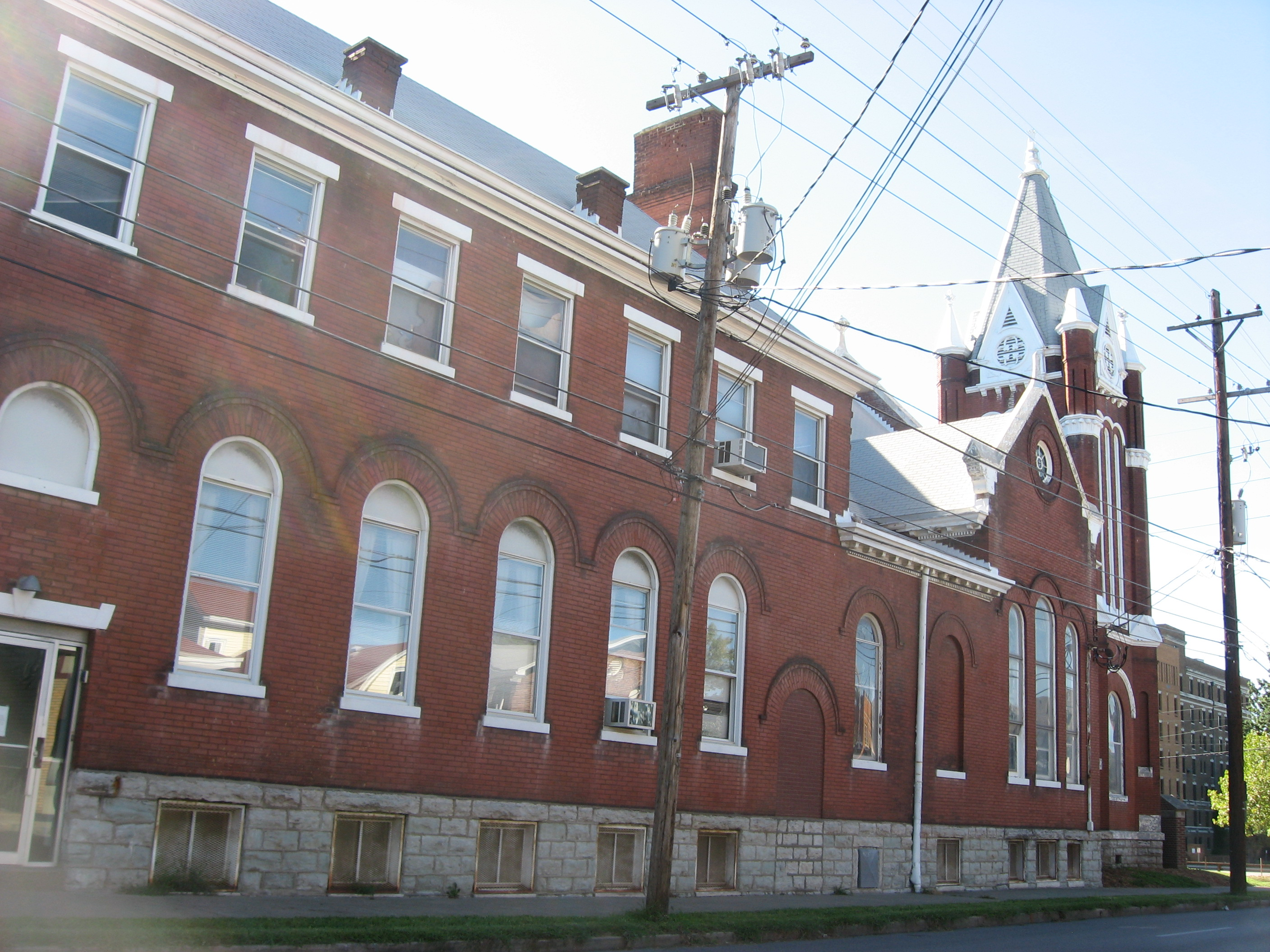 Eastern side of the German Evangelical Church of Christ Complex, located at 1236 E. Breckinridge Street in Louisville, Kentucky, United States. Built in 1902, it is listed on the National Register of Historic Places.